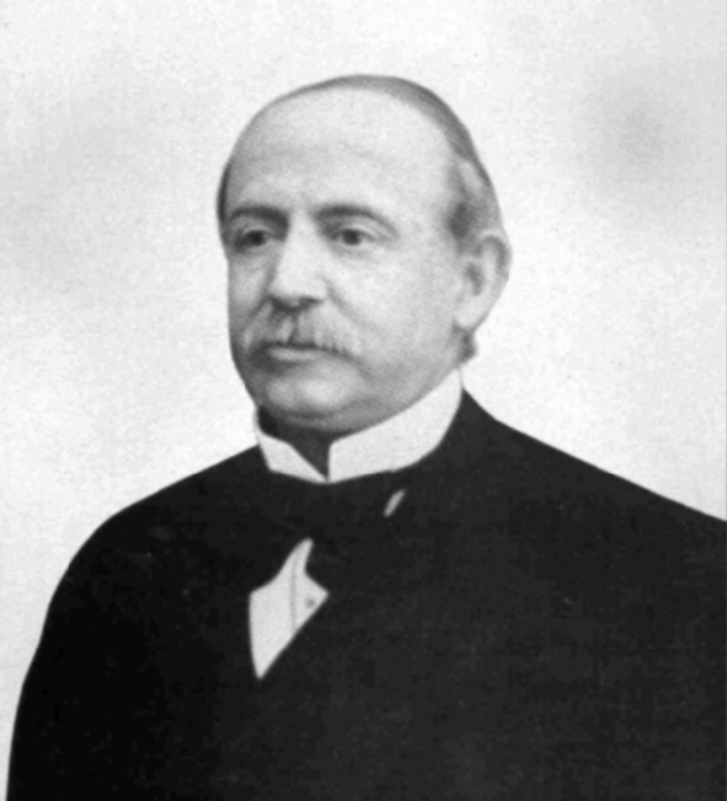 Dr. Jose Salgado y Guillermo